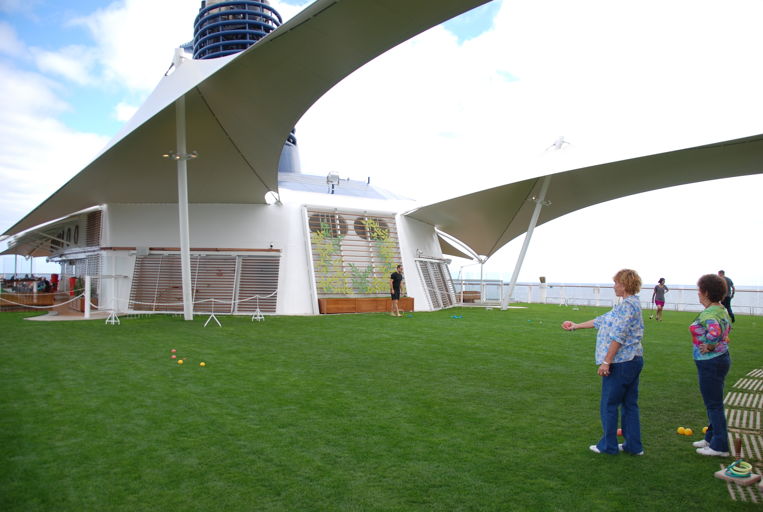 The Lawn Club on Deck 15 features real grass for many different activities. Aboard the Celebrity Equinox during December, 2011